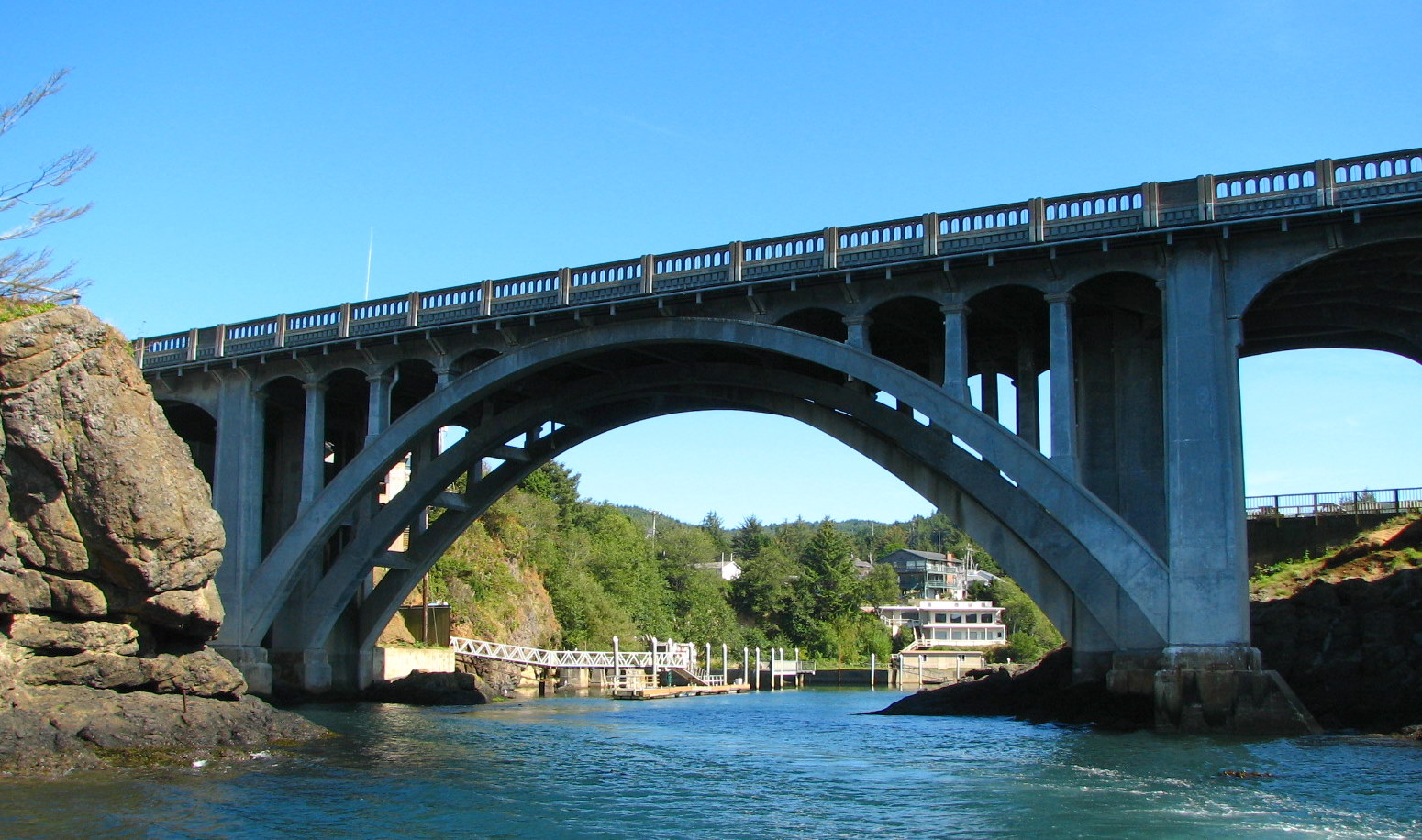 The historic Depoe Bay Bridge on US 101 in Depoe Bay, Oregon, United States, is listed on the US National Register of Historic Places.